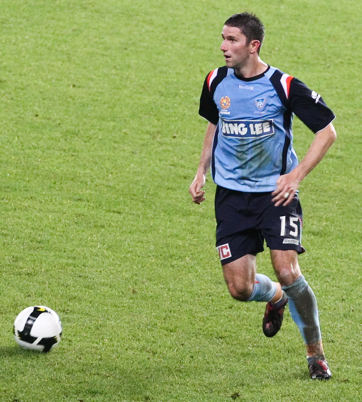 Terry McFlynn playing against Queensland Roar in round 7 of the 08-09 A-League